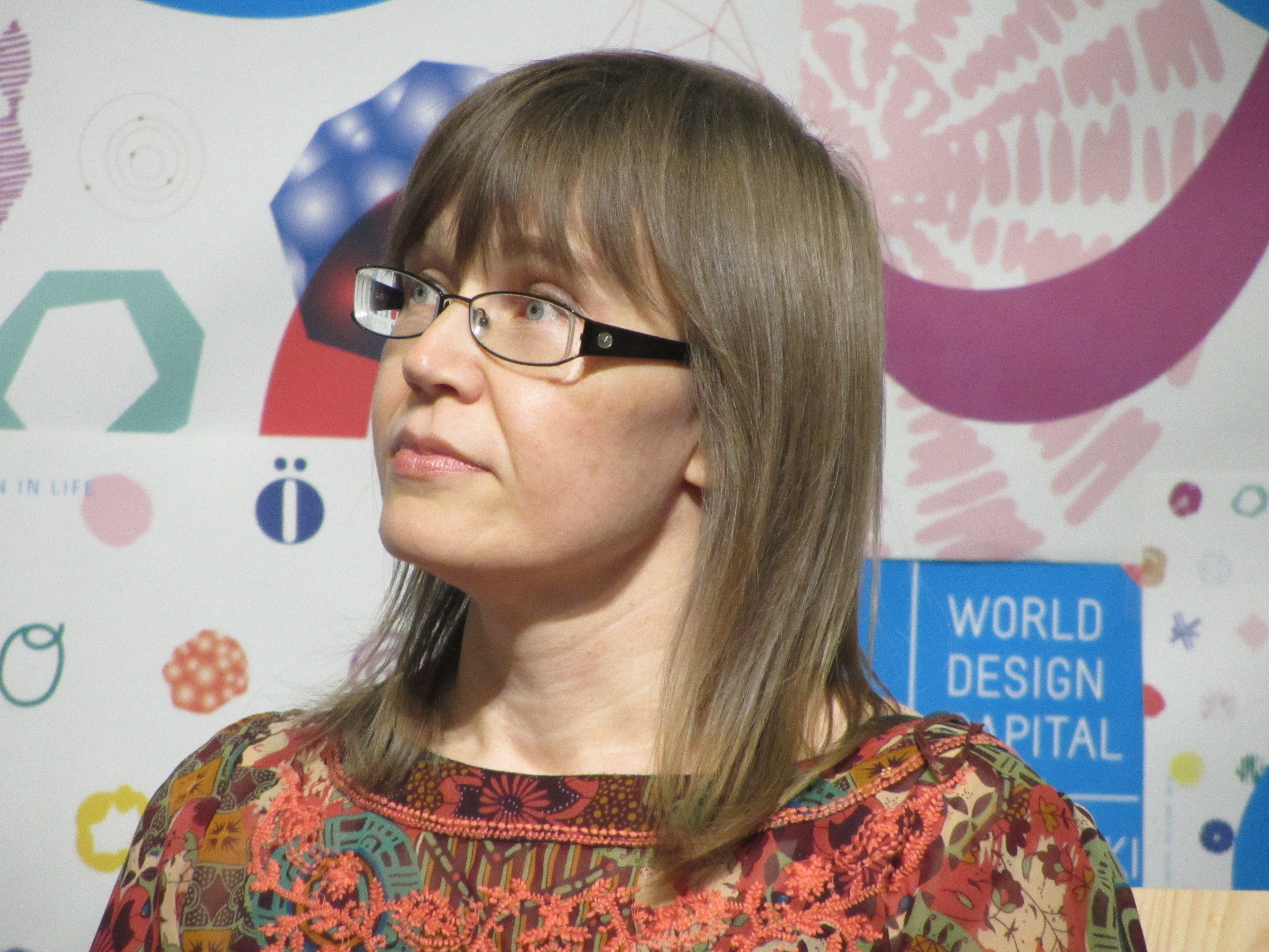 Finnish writer Katri Lipson at Helsinki Book Fair 2012